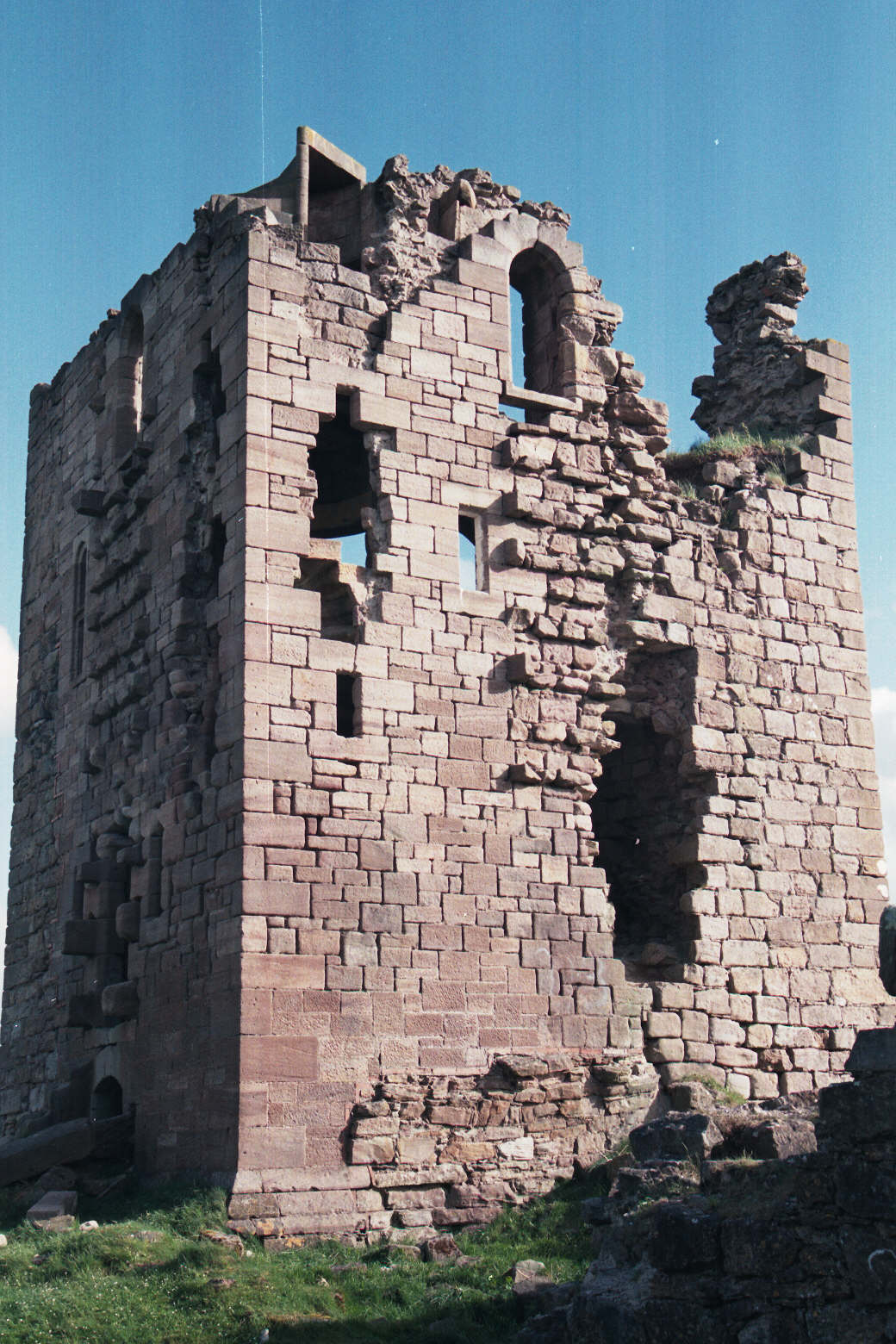 Depicted place: Sanquhar Castle